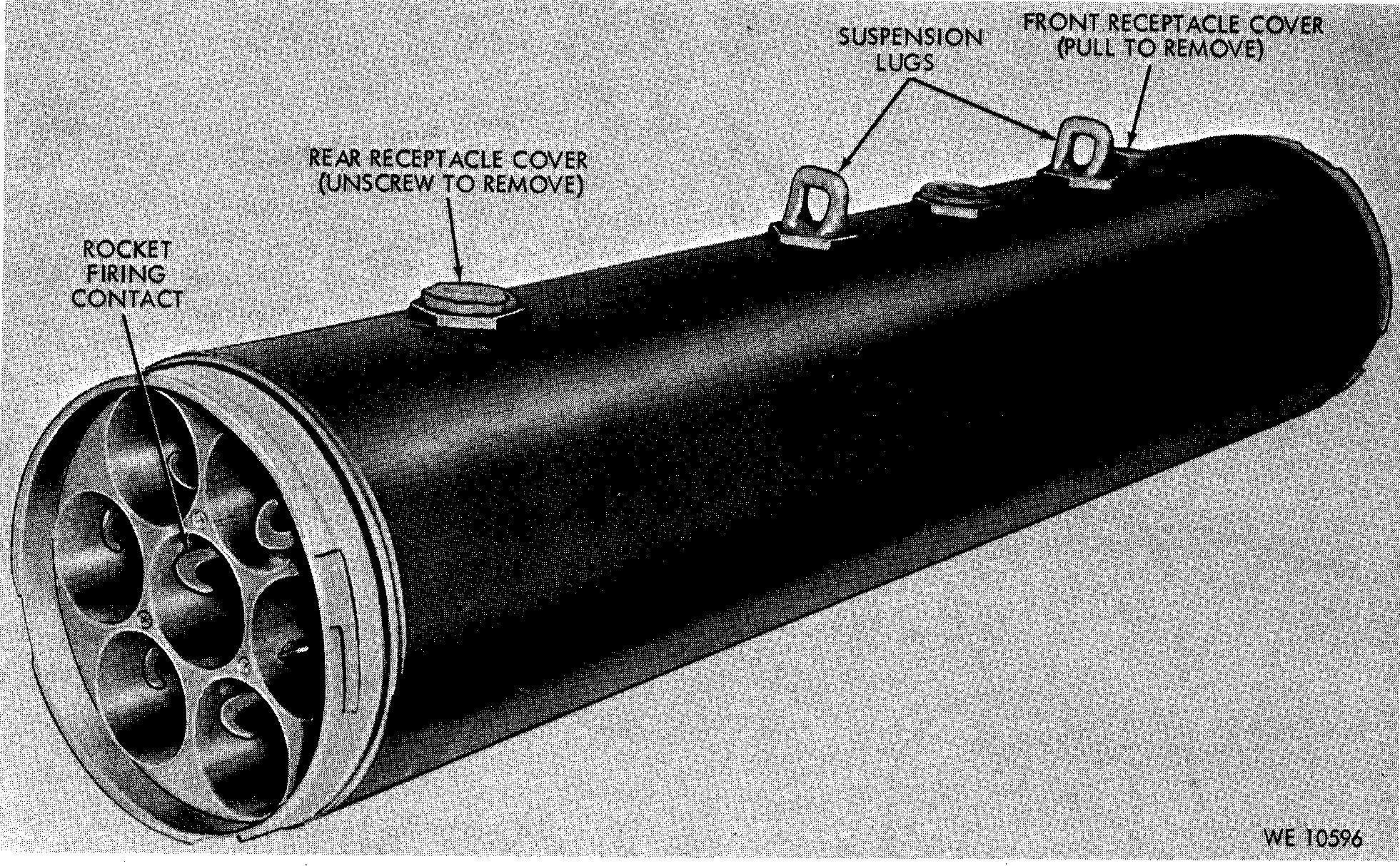 Drawing of XM157 Rocket Pod